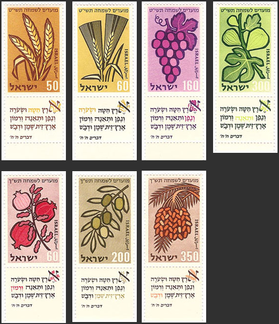 The seven species in a stamp series issued for the Hebrew new year